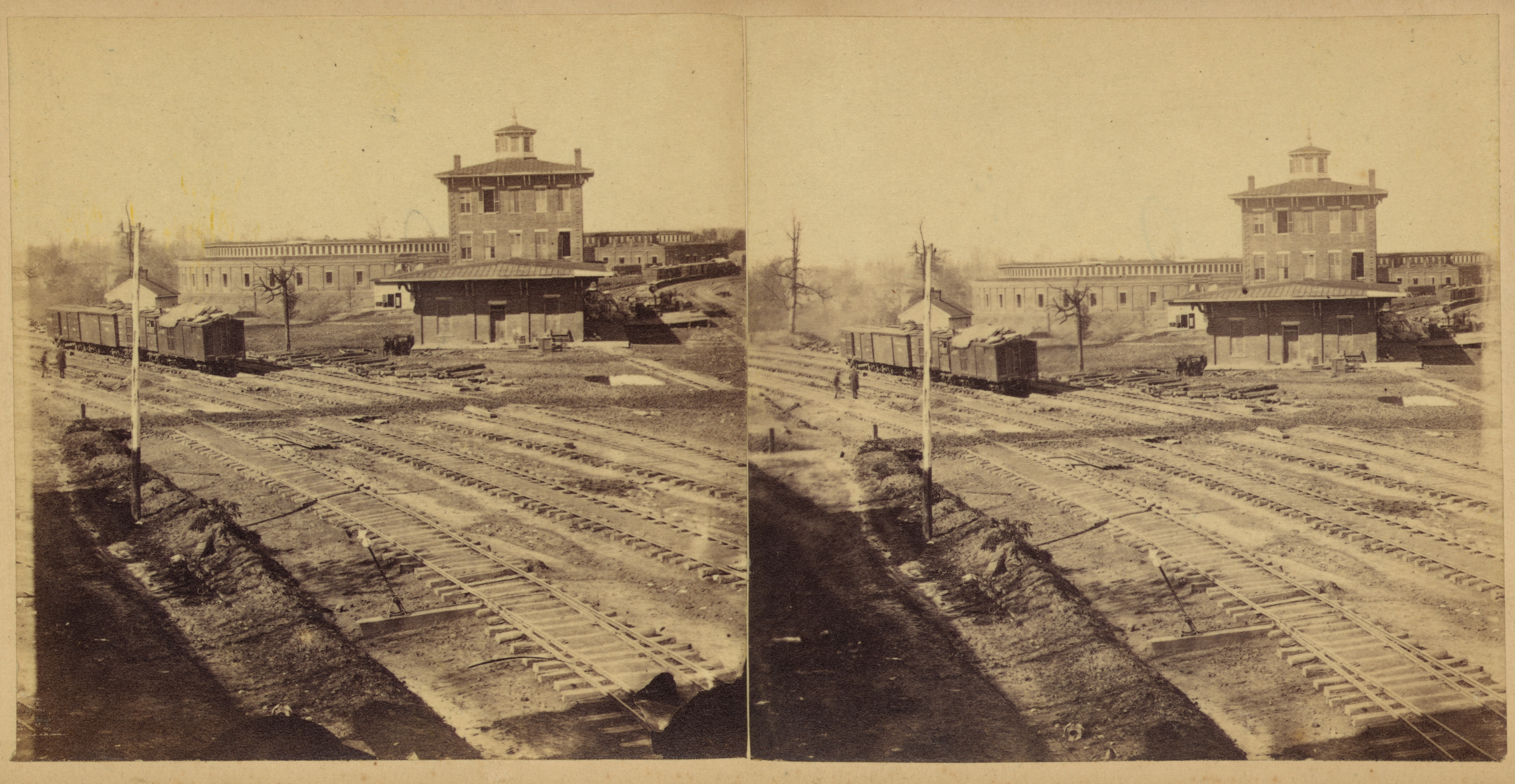 "Buildings of the Western & Atlantic (state) R.R. at Atlanta, Ga., Nov. 1864. These were all destroyed a few days afterwards". Stereocard view by George N. Barnard, photographer accompanying General Sherman in the Union occupation of Atlanta during the American Civil War.